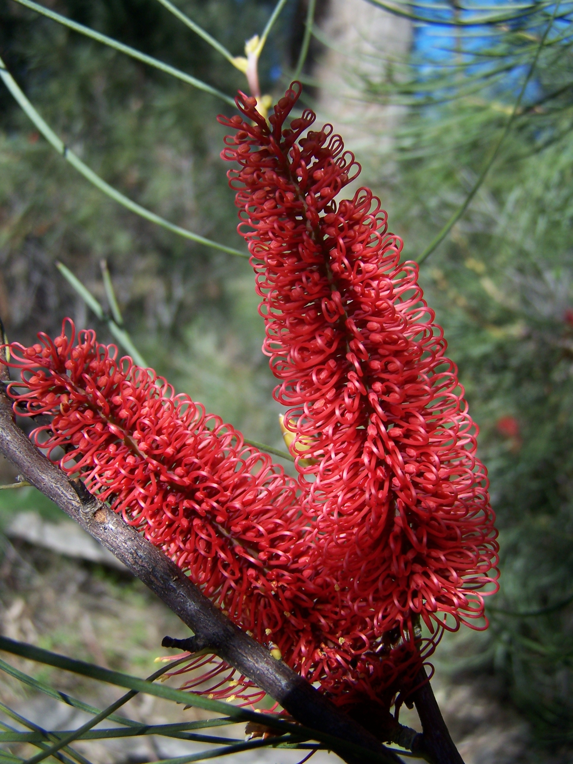 Hakea bucculenta, Red Pokers growing naturally in Kings Park